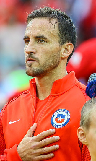 Chile VS. Australia 1 - 1, 25 June 2017